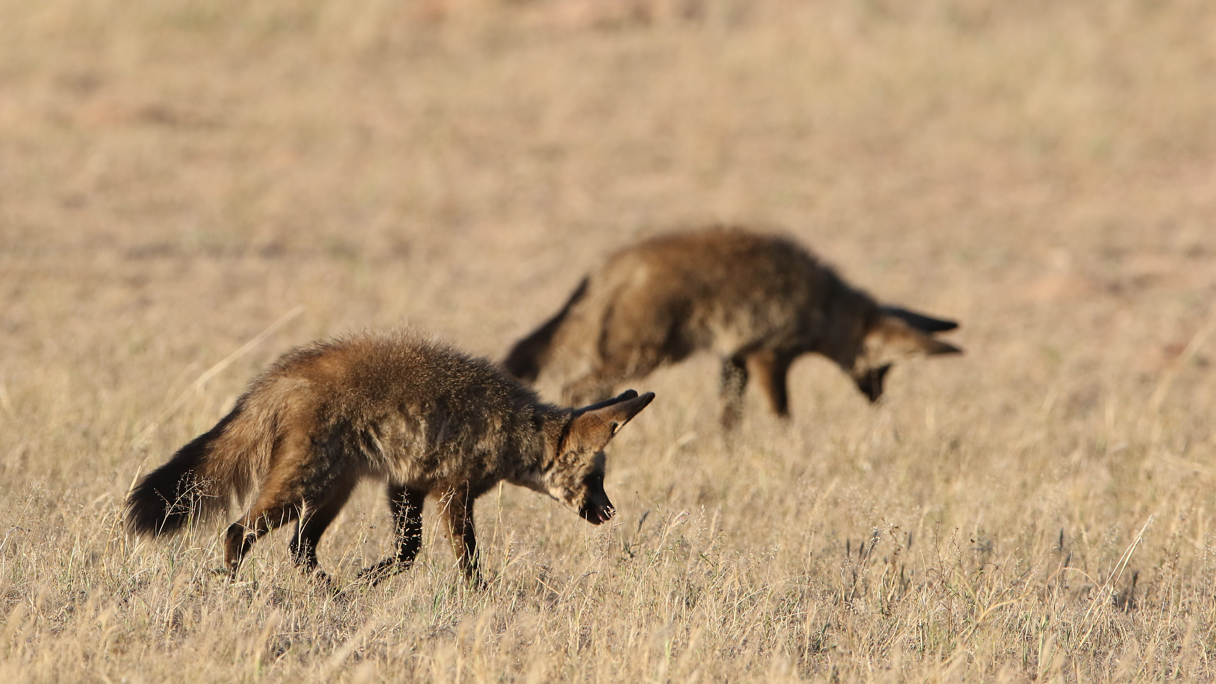 Bat-eared fox, Otocyon megalotis, at Kgalagadi Transfrontier Park, Northern Cape, South Africa